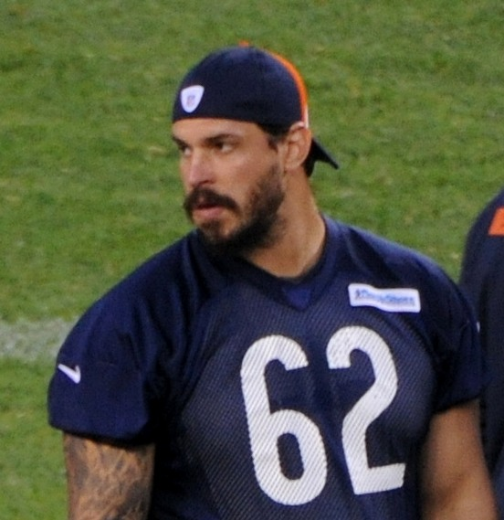 Guard, Eben Britton, at Chicago Bears training camps in 2014.